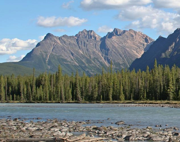 Dragon Peak in Jasper National Park, Canada as seen from the Icefields Parkway